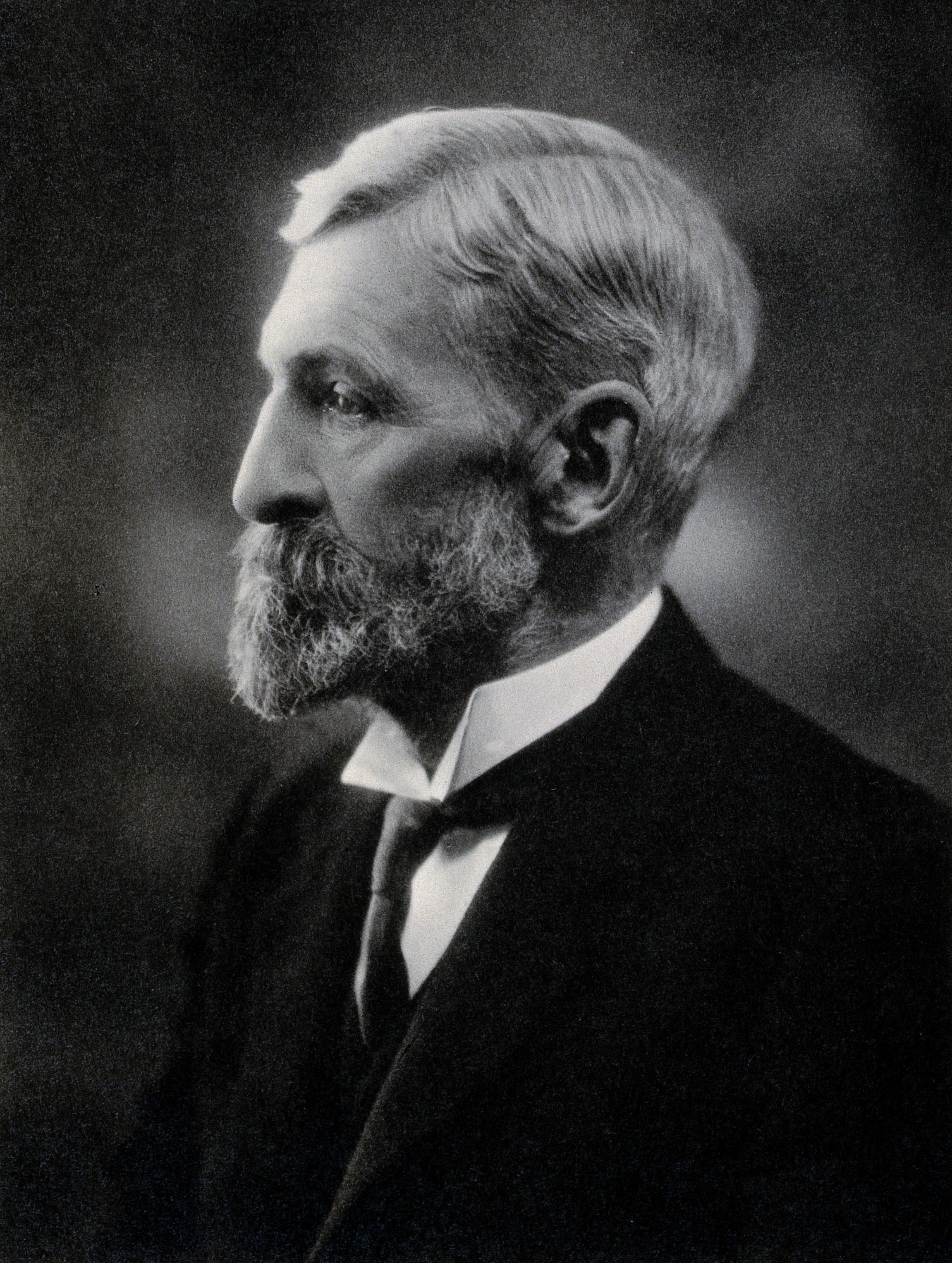 Sir James Barr. Photograph. Iconographic Collections Keywords: portrait photographs